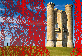 Broadway Tower, Cotswolds, England.